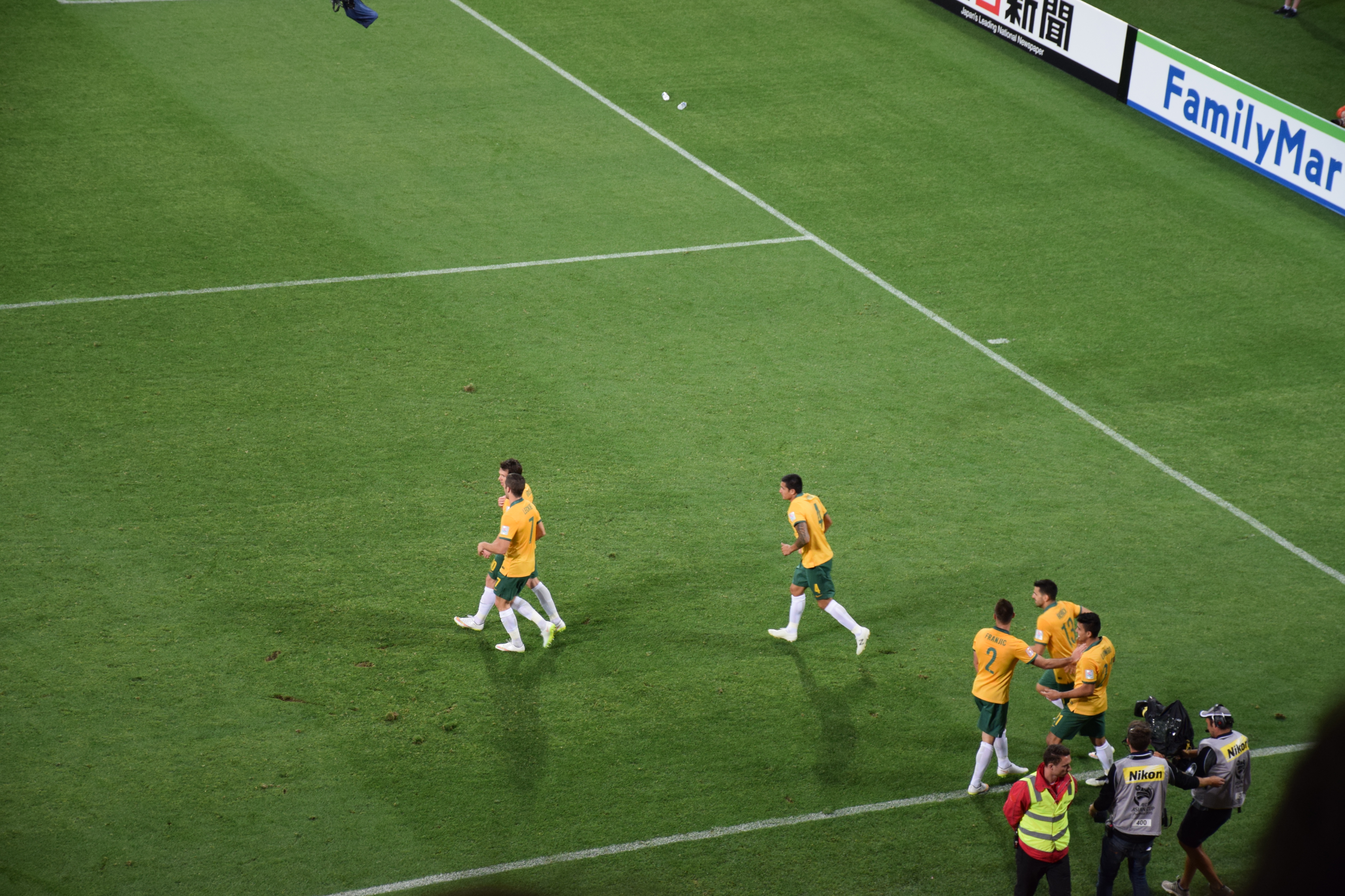 2015 AFC Asian Cup opening match Australia Kuwait, 9 January 2015